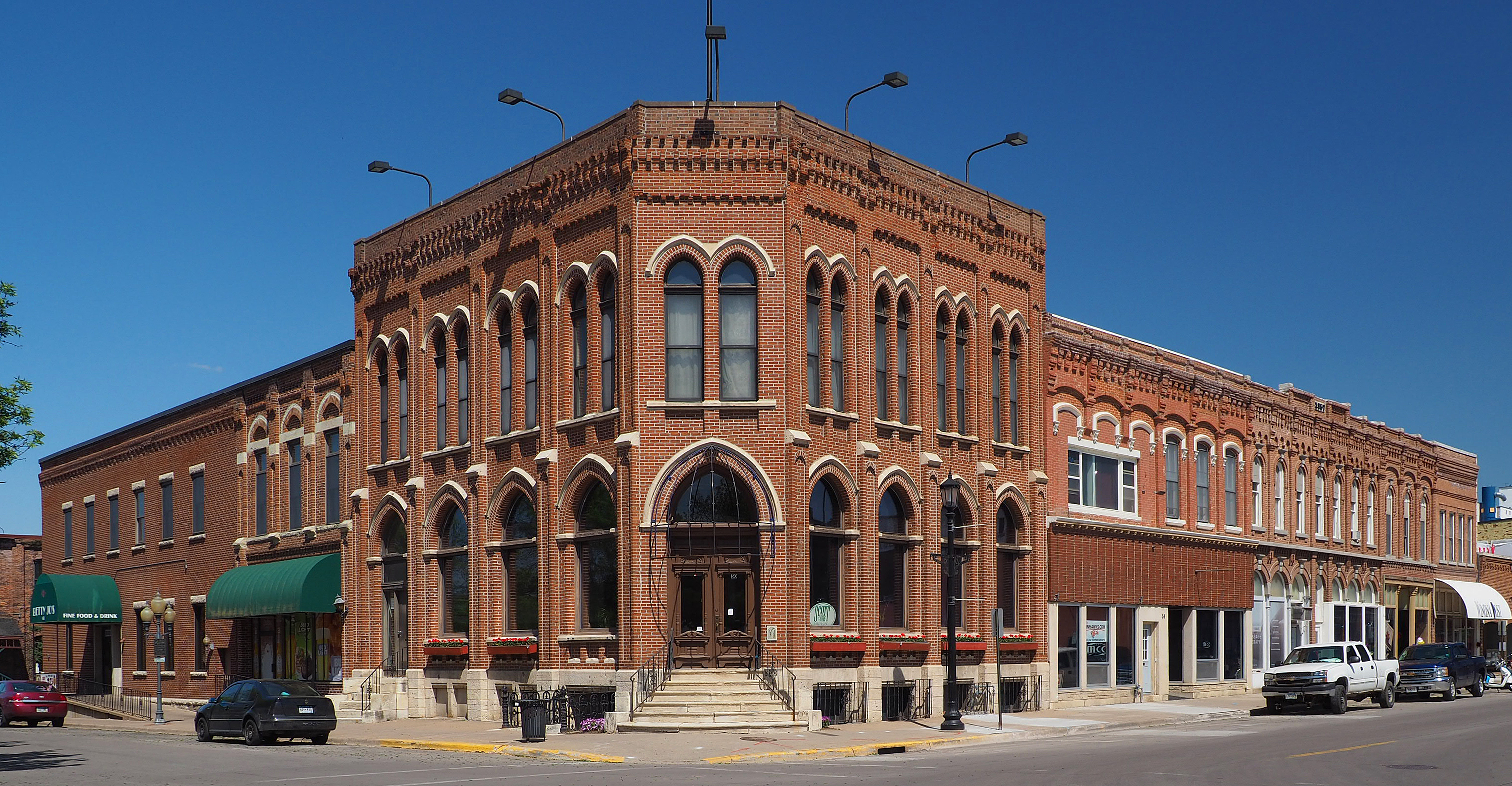 East Second Street Commercial Historic District, view to the northeast from 2nd & Center Sts, Winona, Minnesota, USA.